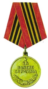 Soviet Medal For the Capture of Berlin